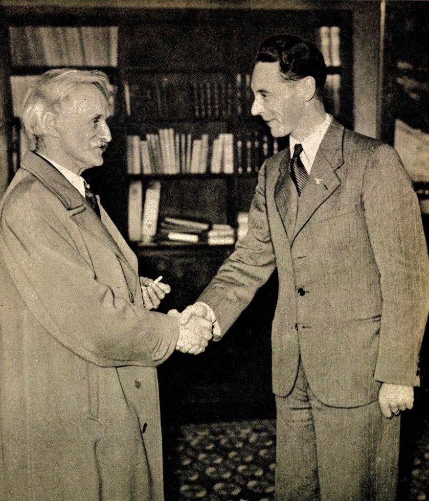 Photo from "Liv i kamp for Norge" ("Marie og Gulbrand Lunde Et liv i kamp for Norge"), a memorial book about Norwegian couple Marie (1907–1942) and Gulbrand Lunde (politician, 1901–1942), published by "Rikspropagandaledelsen" (propaganda department of Nasjonal Samling, Norwegian fascist party 1933–1945) and "Blix forlag" in Oslo, Norway 1942. Cropped JPG from PDF (a low resolution digitized version) of the book downloaded from National Library of Norway's site NO-OsNB (999824600824702202)